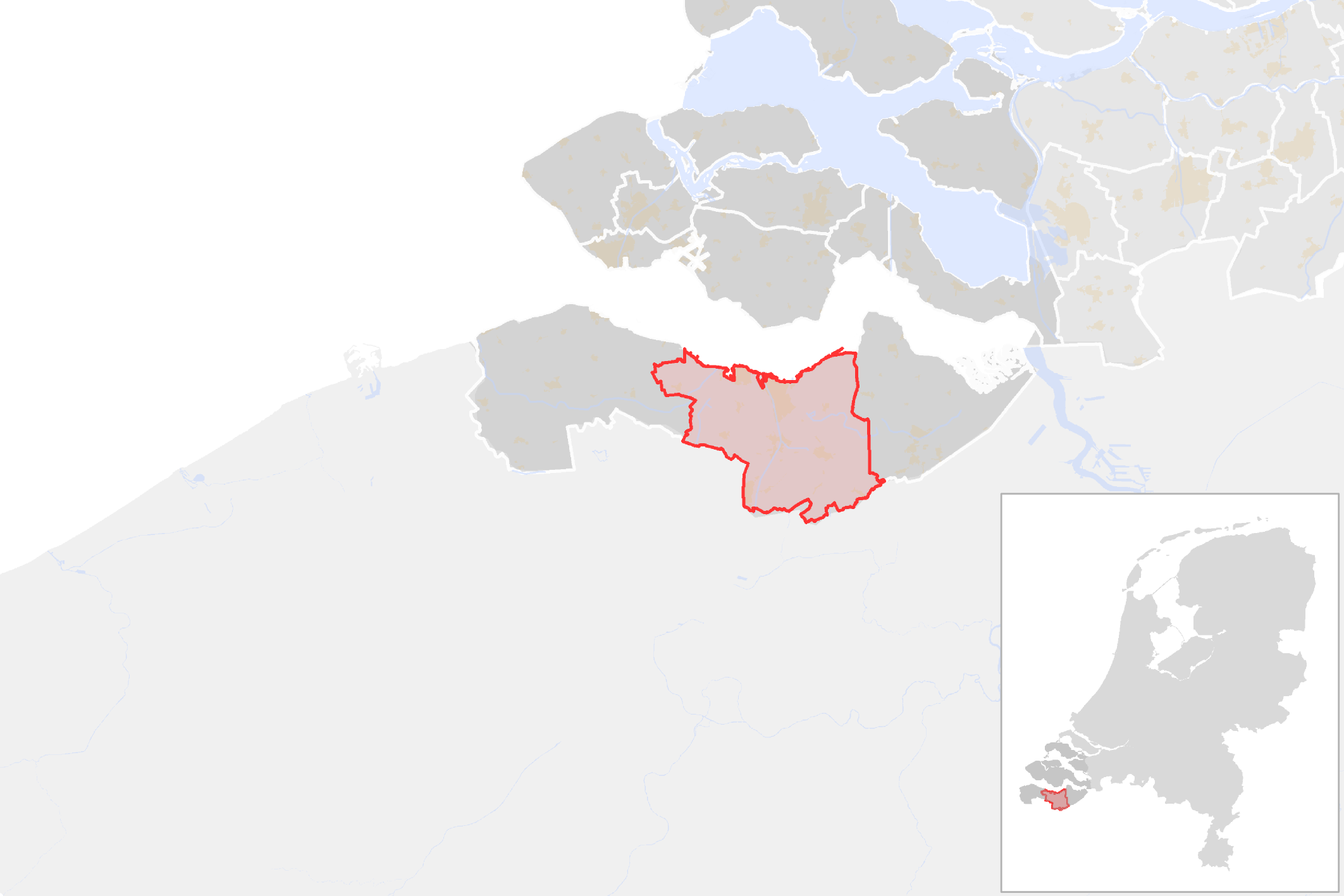 Locator map showing municipality boundary of one of the 390 Dutch municipalities (as of 2016)